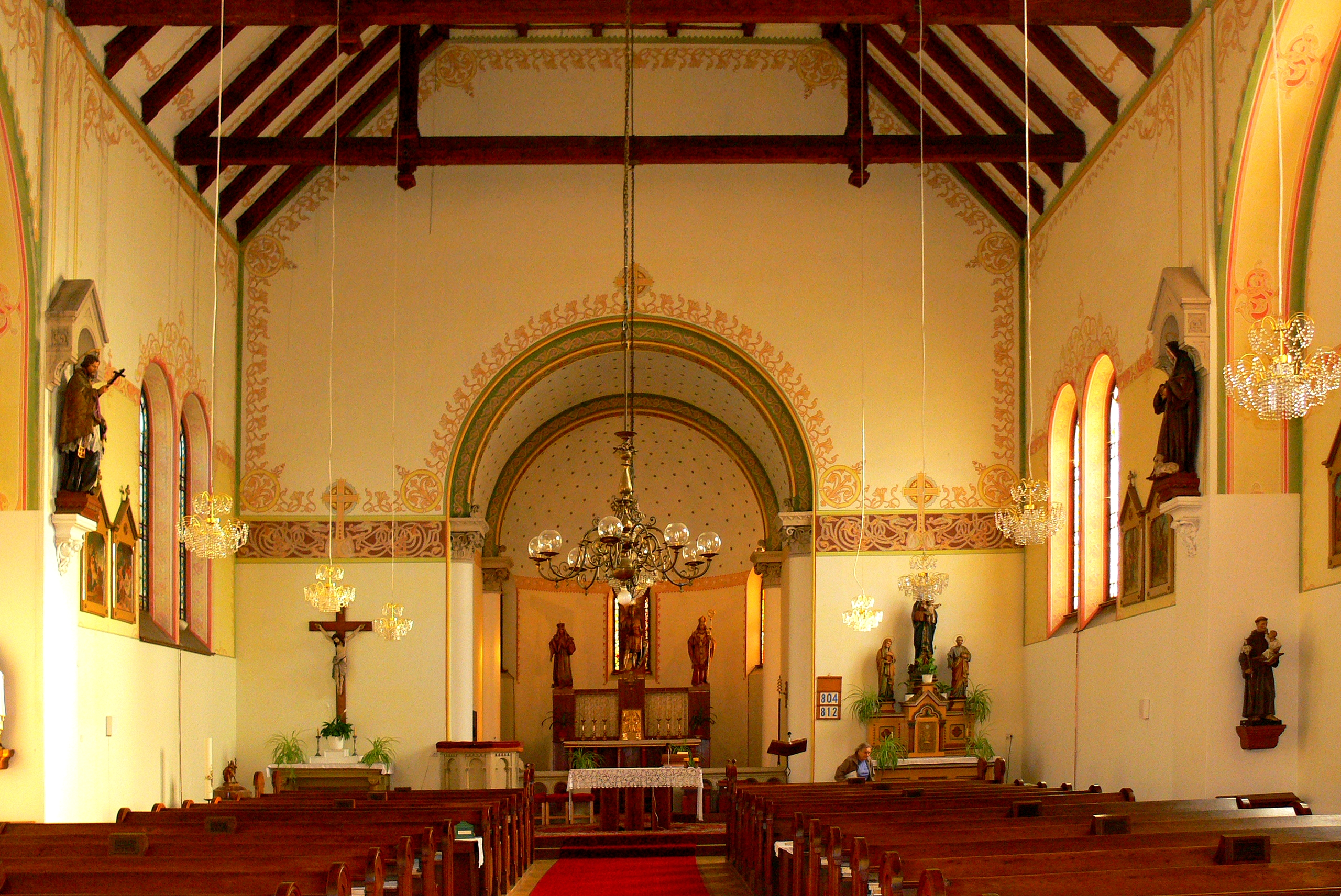 Church of st Wenceslaus in Pečky - Interior